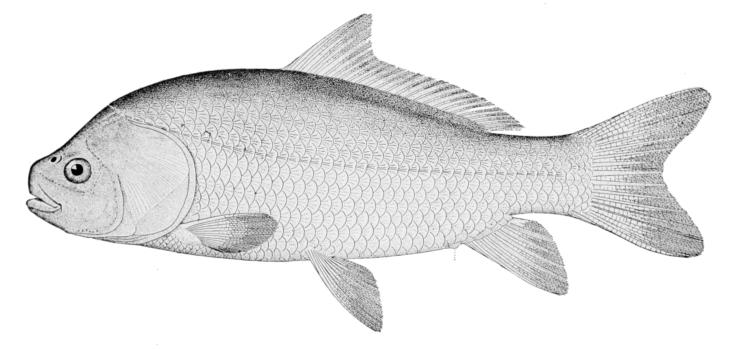 Ictiobus bubalus